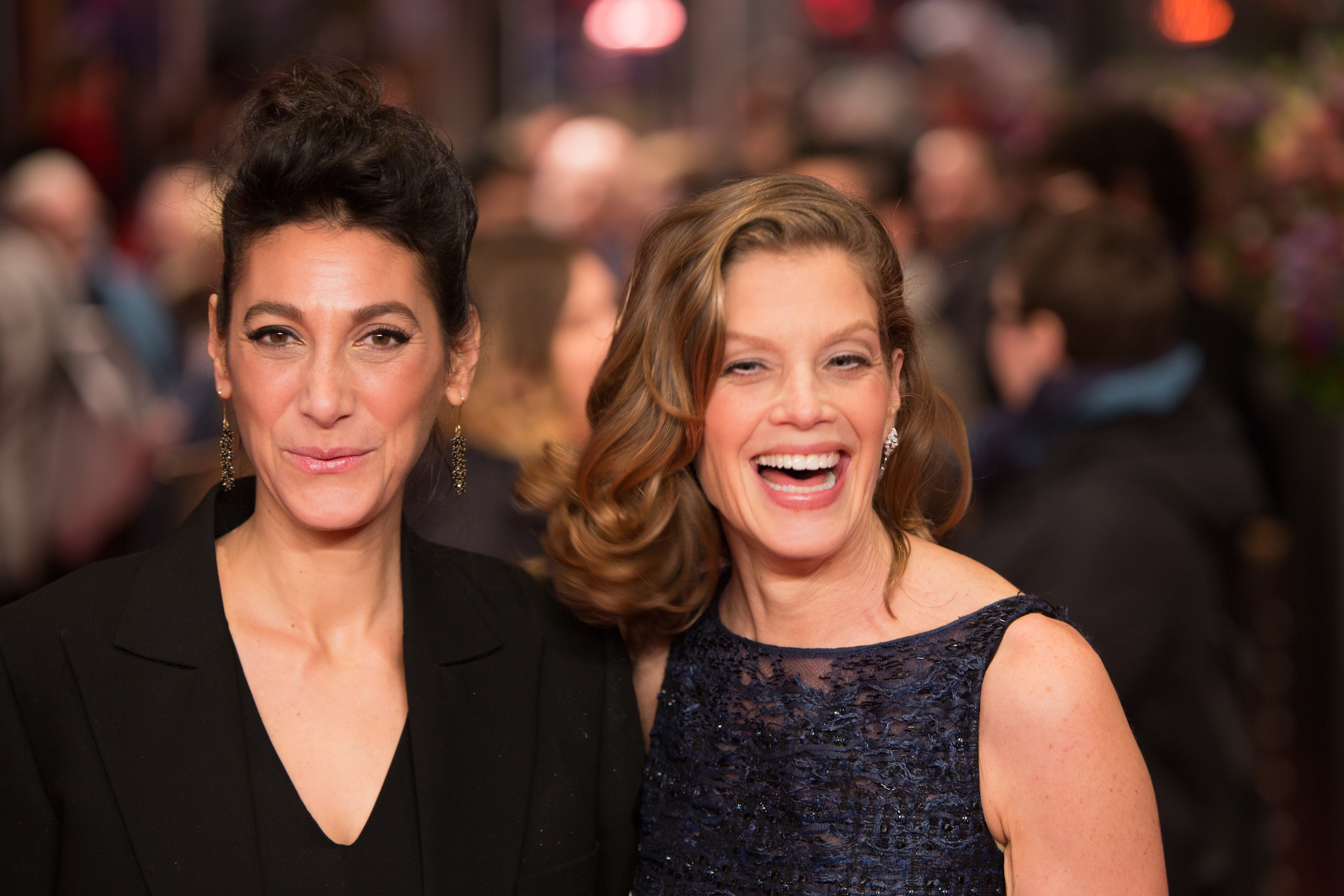 Emily Atef and Marie Bäumer at the award ceremony of the 2018 Berlin Film Festival